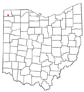 Map of Ohio showing location of city of Bryan